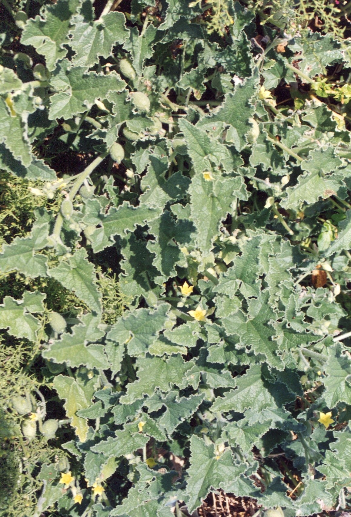 From a visit to Yenifoça in Turkey in the fall of 1998.